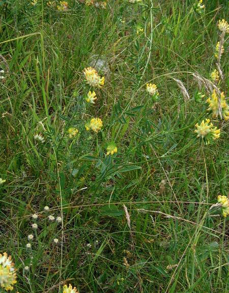 Anthyllis vulneraria: Flowers and leaves. Natural habitat in Jutland.